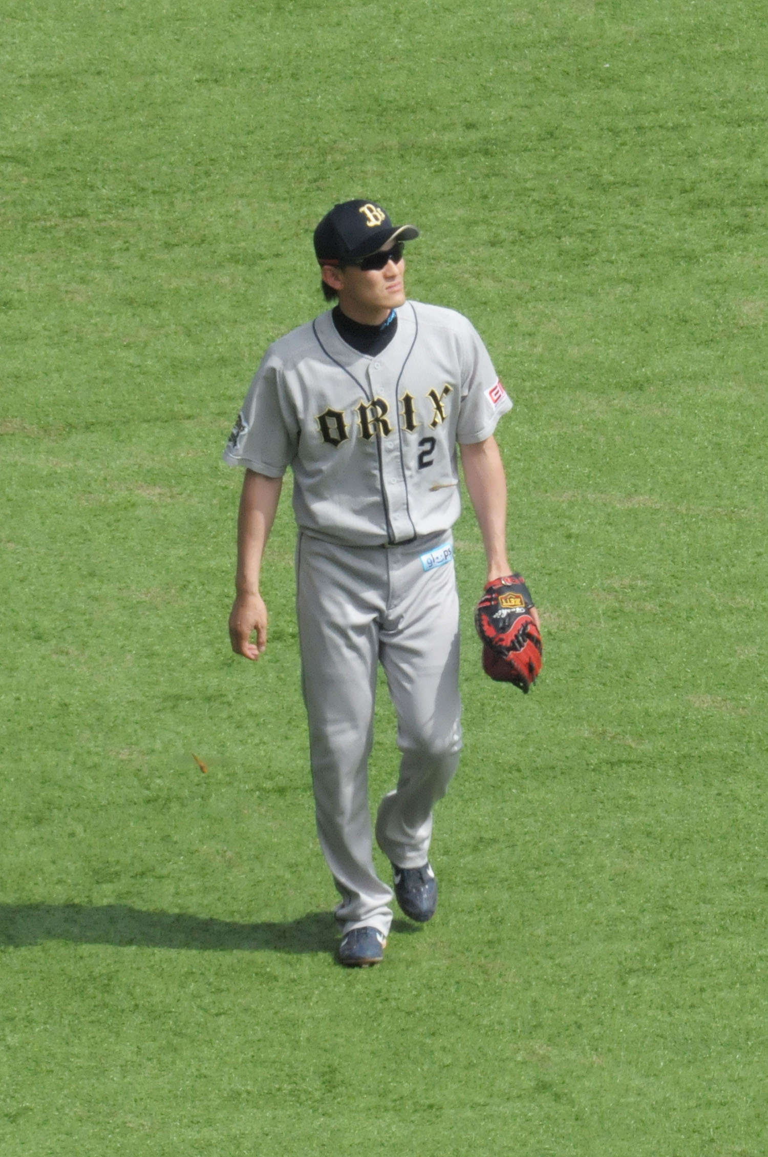 Koji Yamasaki, infielder of the Orix Buffaloes, at QVC Marine Field.